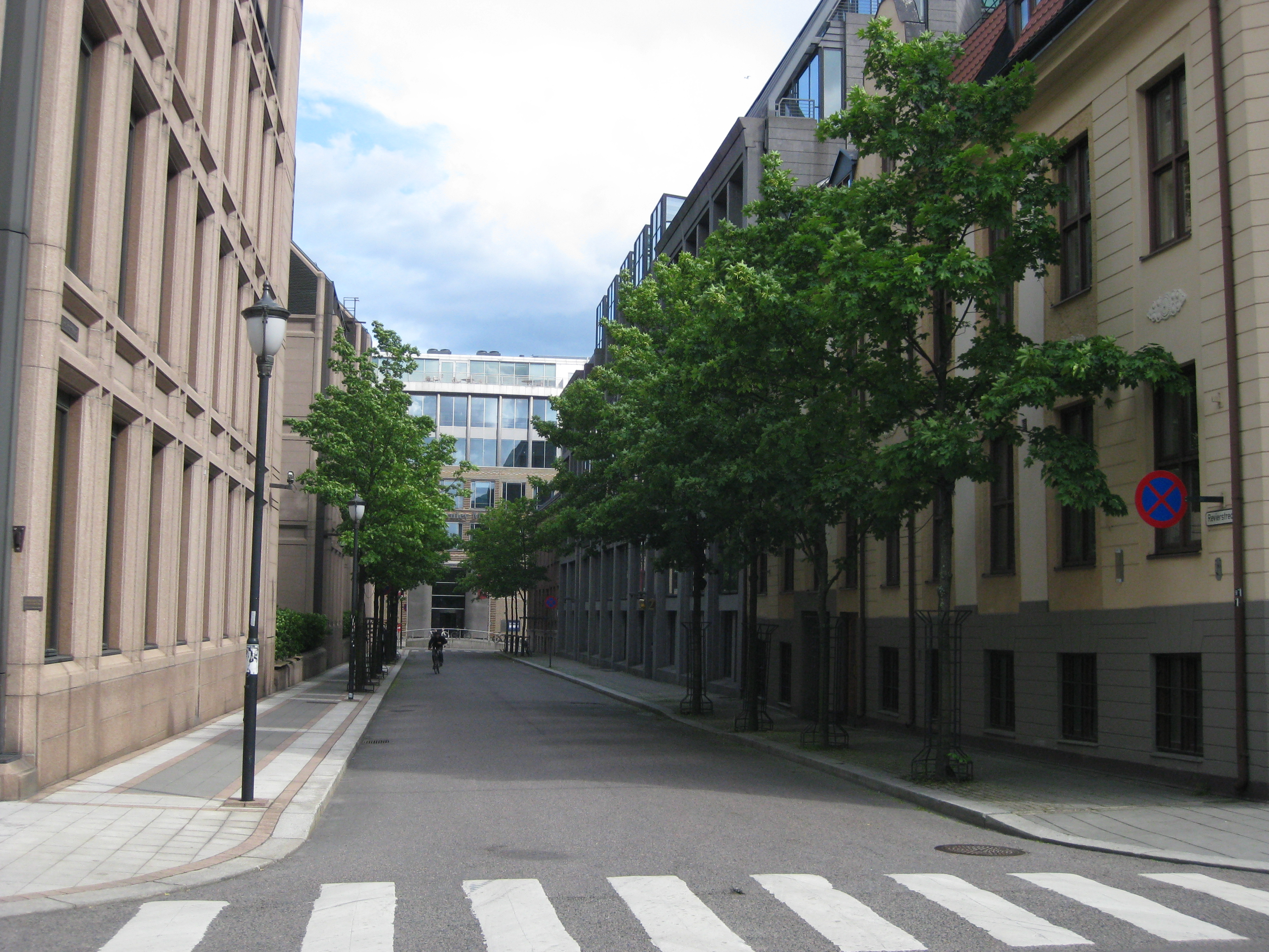 Revierstredet in Kvadraturen, Oslo